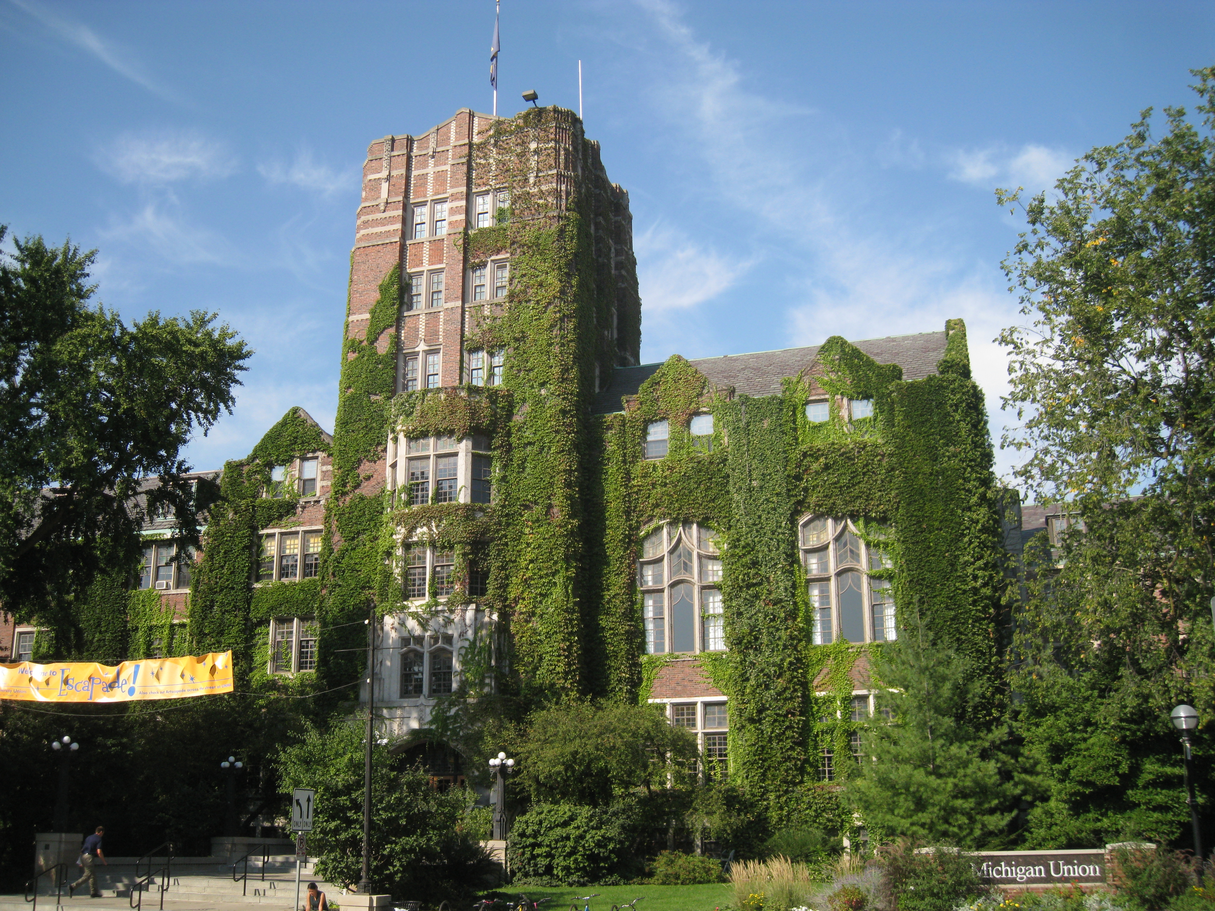 A photo of the Michigan Union in the Fall of 2009